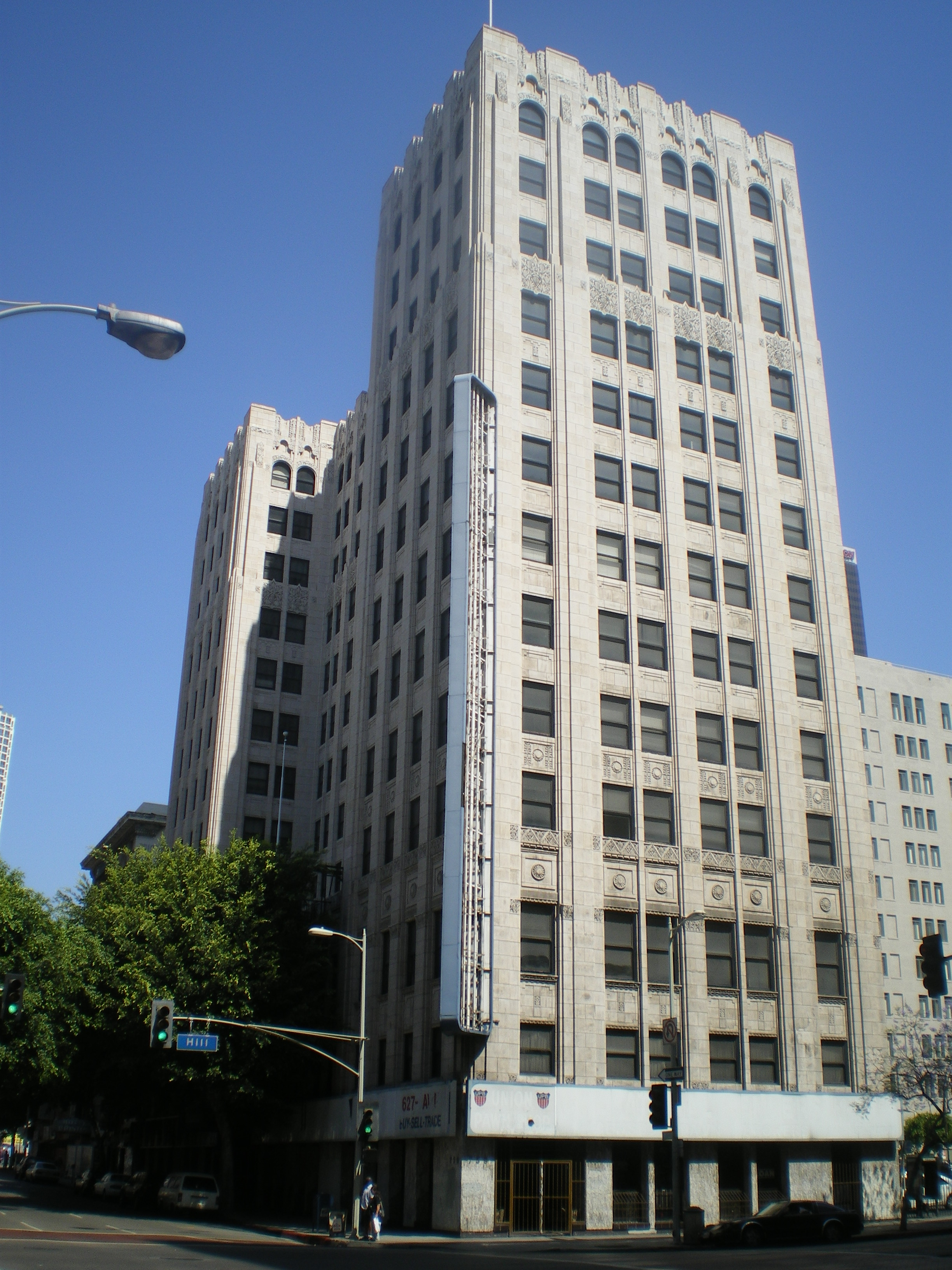 Garfield Building, 403 W. 8th St., Los Angeles, California